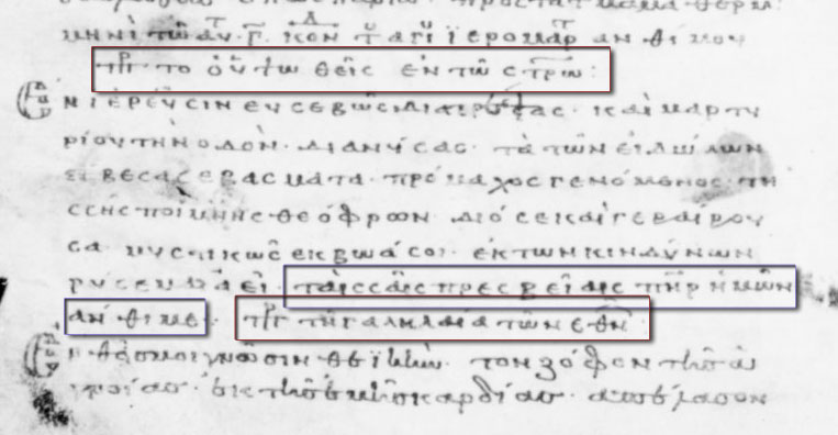 Kontakion for Saint Anthimus Hieromartyr (3 September) in a 10th-century kontakarion (Sin. gr, 925, fol. 2v)